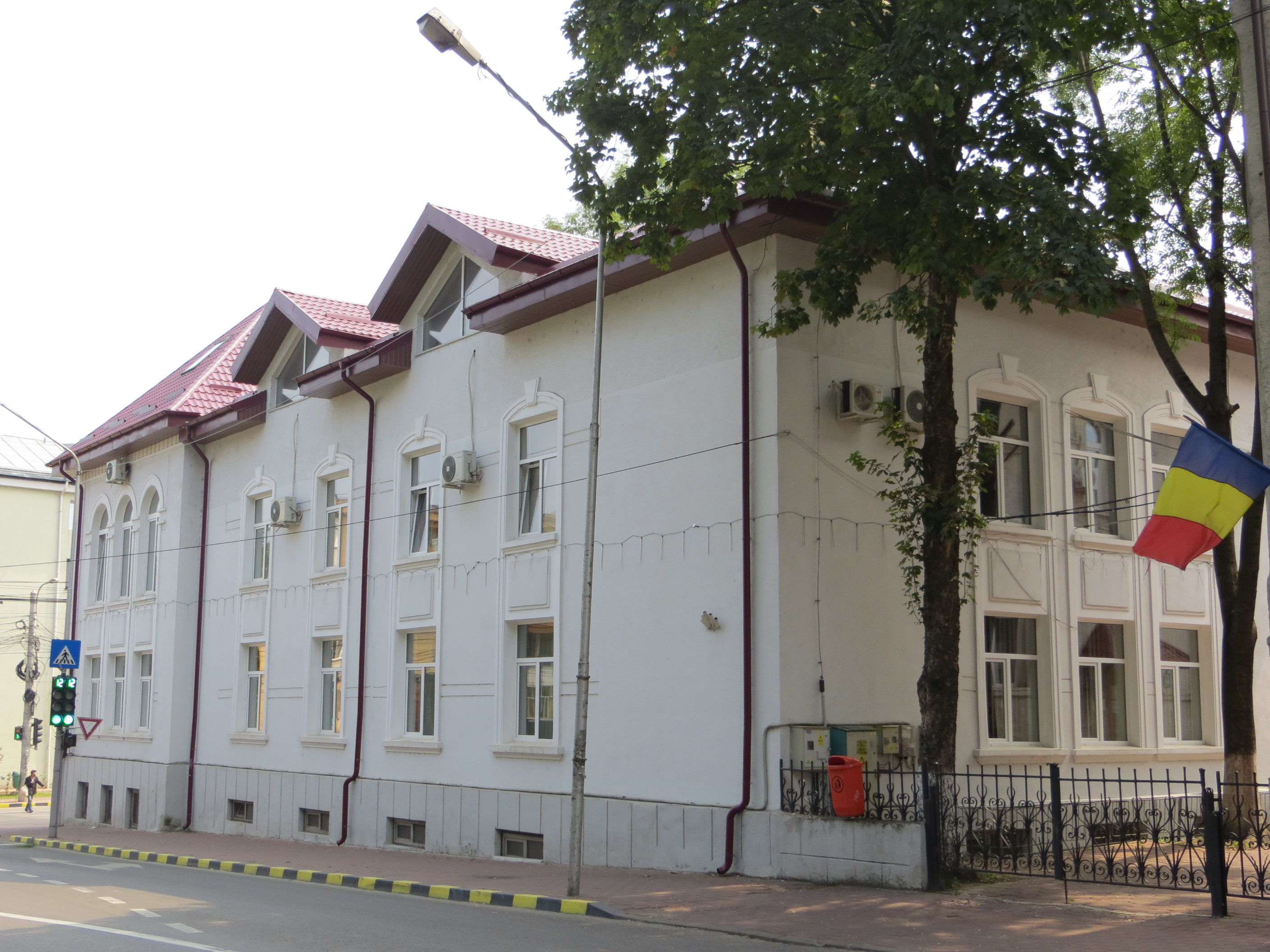 I.G. Sbiera Bukovina Library in Suceava.